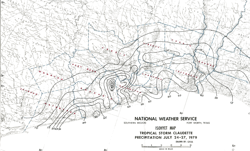 Isohyets in Texas and western Louisiana. July 24–27, 1979